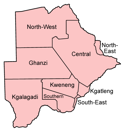 Map of the districts of Botswana, with ISO standard names. Made by User:Golbez.